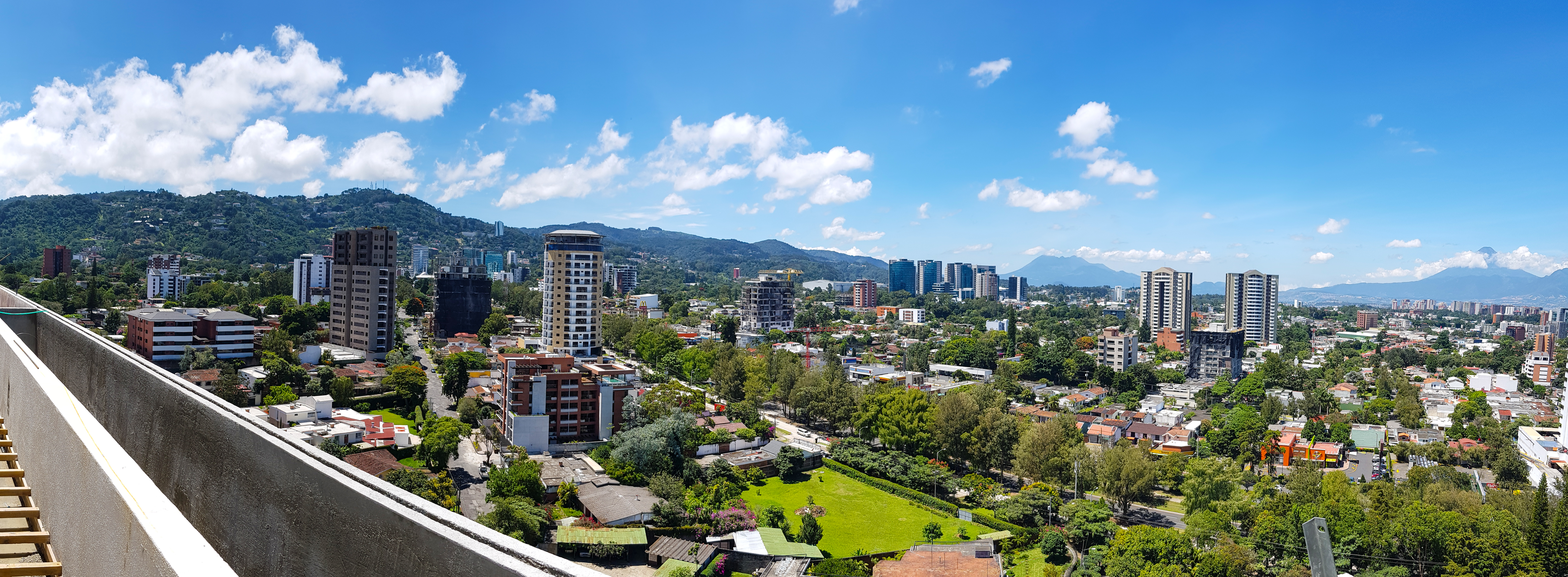 Vista Hermosa zona 15 Guatemala City